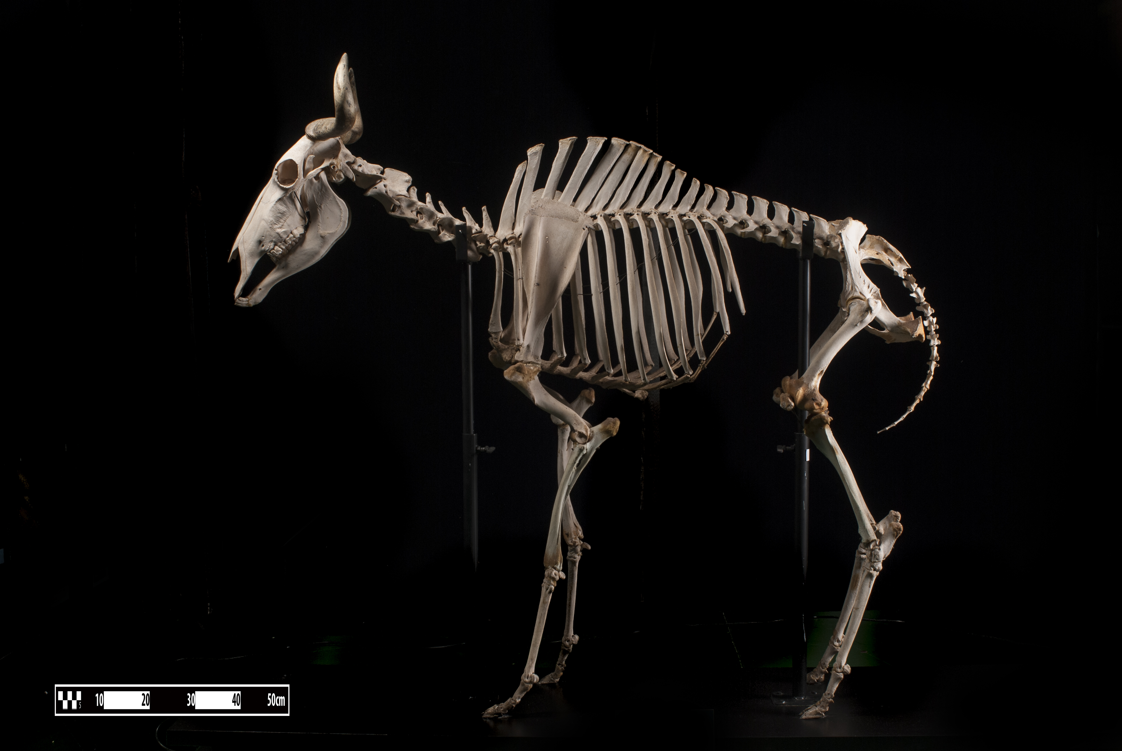 Gnu. “Connochaetes taurinus”. Specimen of Gnu skeleton prepared by the bone maceration technique and on display at the Museum of Veterinary Anatomy, FMVZ USP.